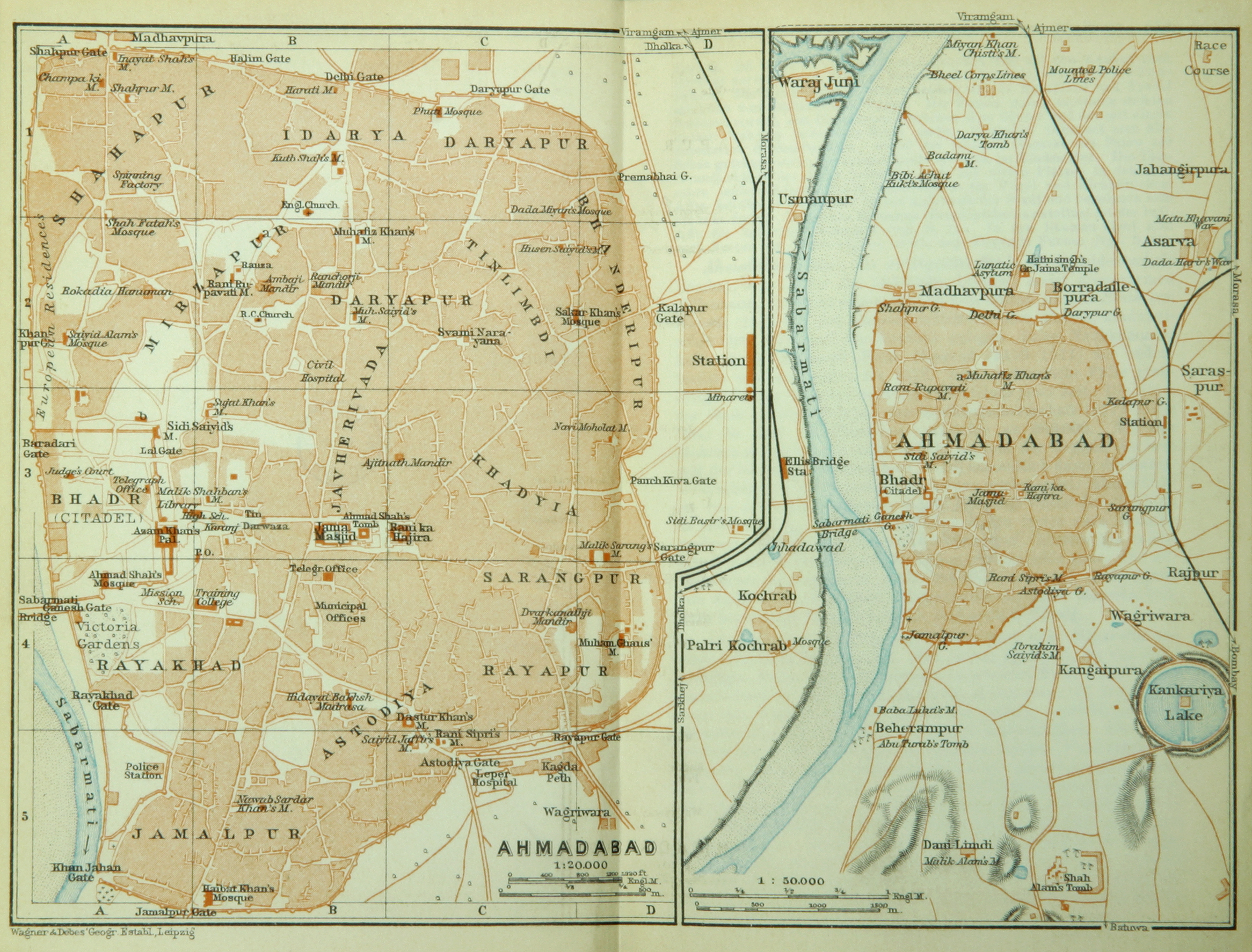 Double map of the city of Ahmedabad, ca 1914. On the left: the old city in detail (1:20,000). On the right: the city and its environs (1:50,000). Labelled in English.